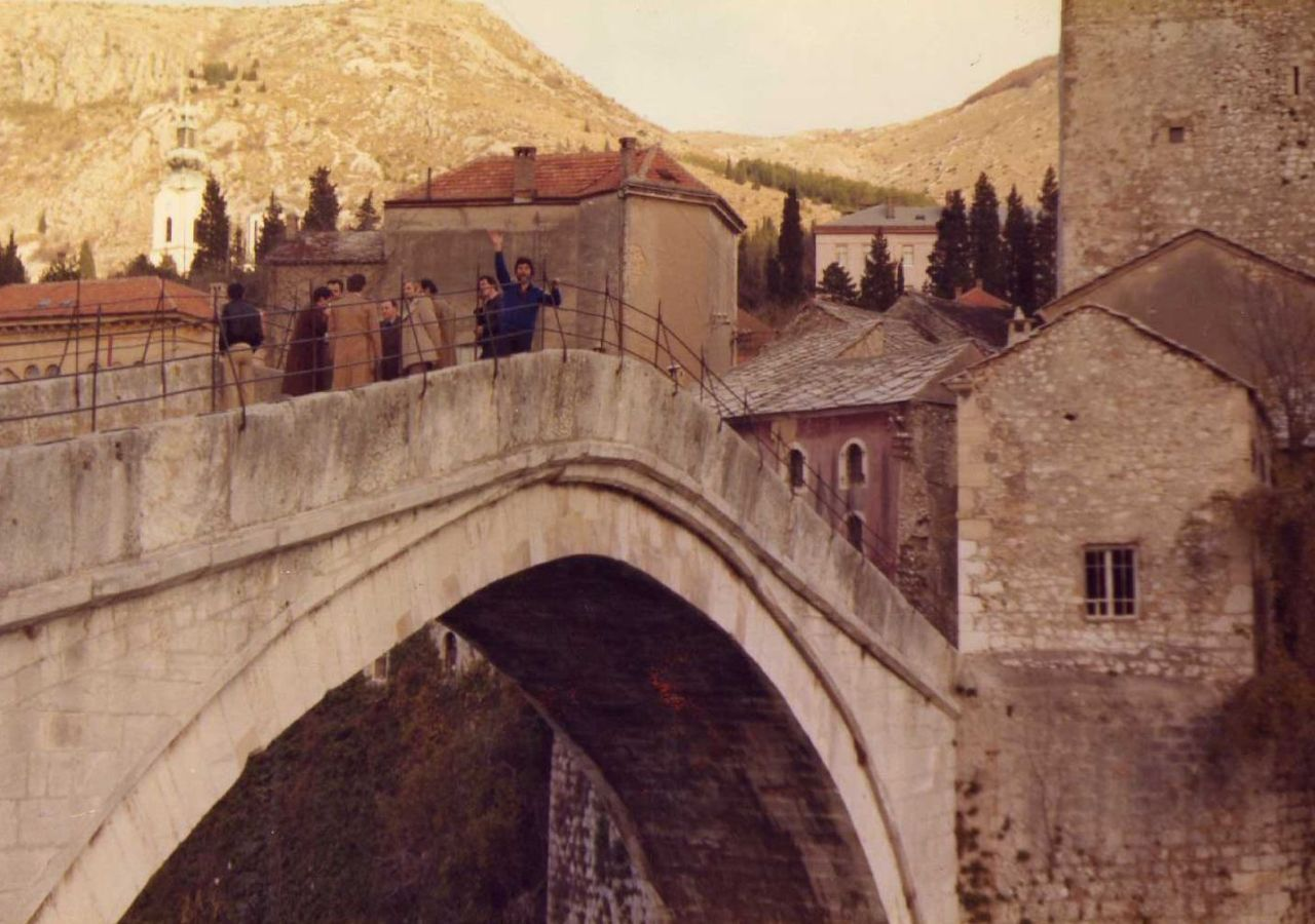 Mostar The Old Bridge - Stari most 1979 g